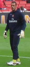 Spanish football (soccer) player Manuel Almunia